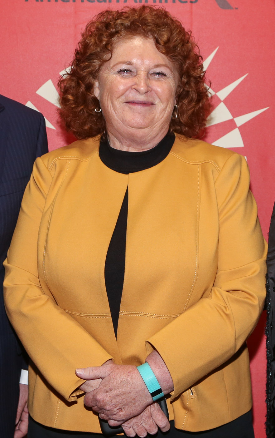 Susan Harper at the 2017 Miami International Film Festival presentation of History of Love at Olympia, March 7, 2017